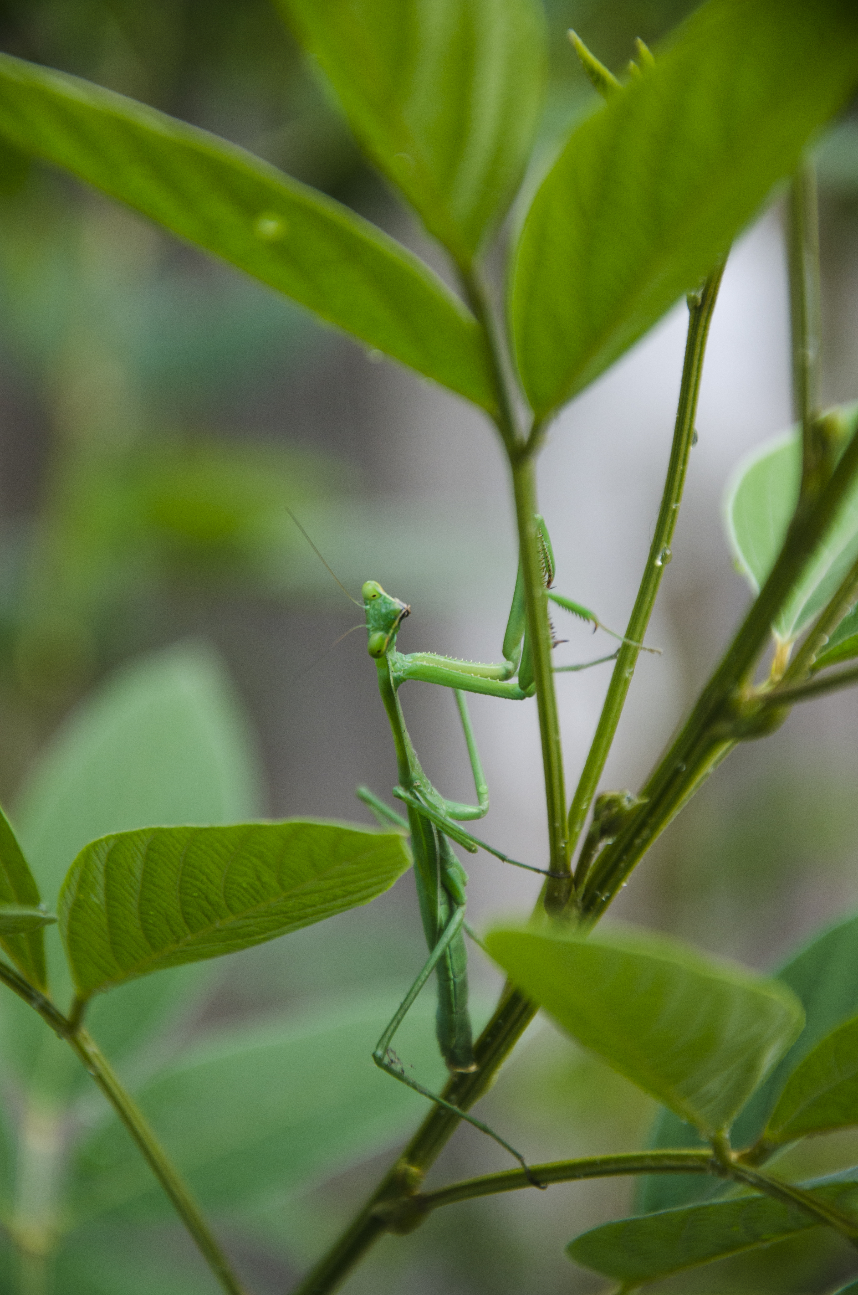 Mantis at Marrickville, Sydney 2020